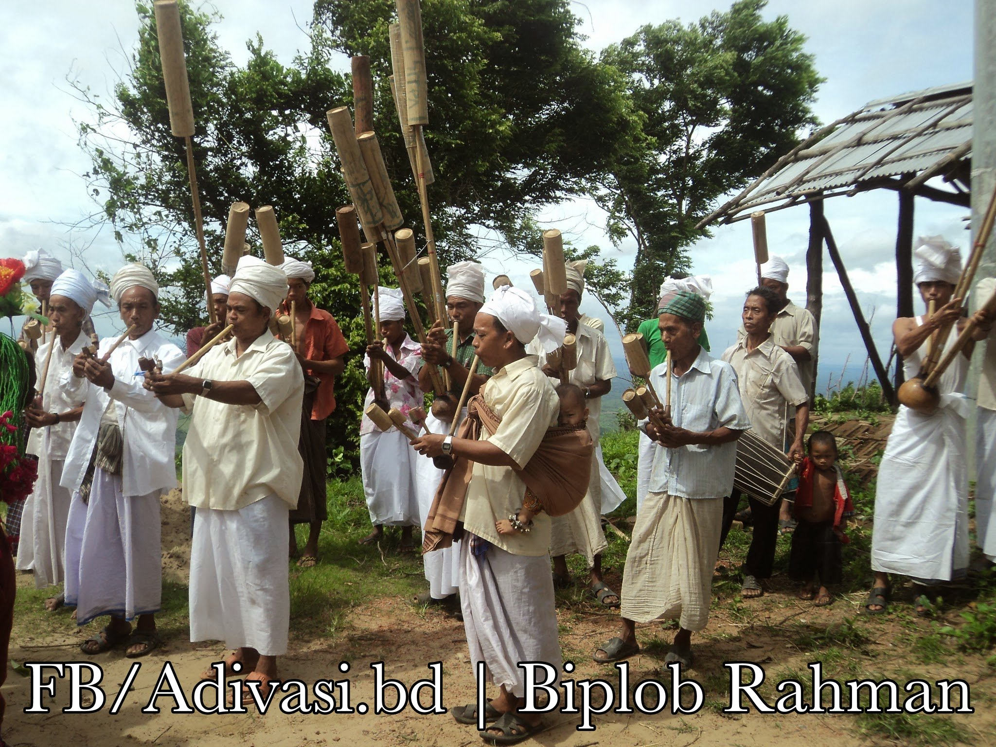 Mro indigenous 'Plung' (Flute), Chimbuk Hill, Bandarban, Bangladesh